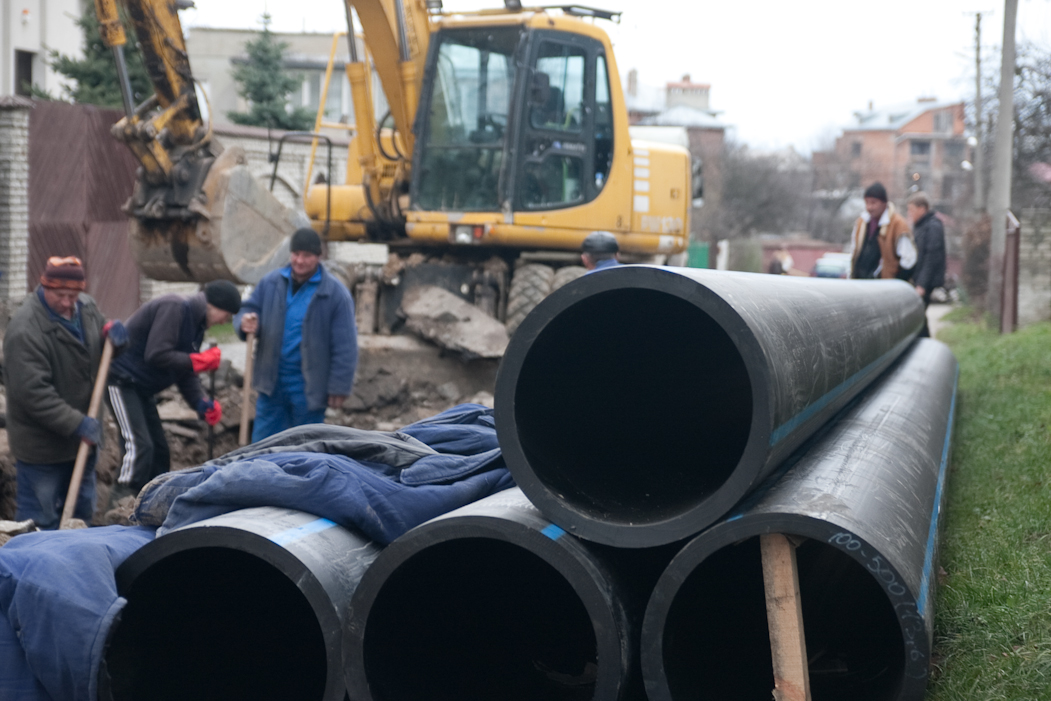 Installation of polyethylene water pipe PE100 500mm, Lviv.